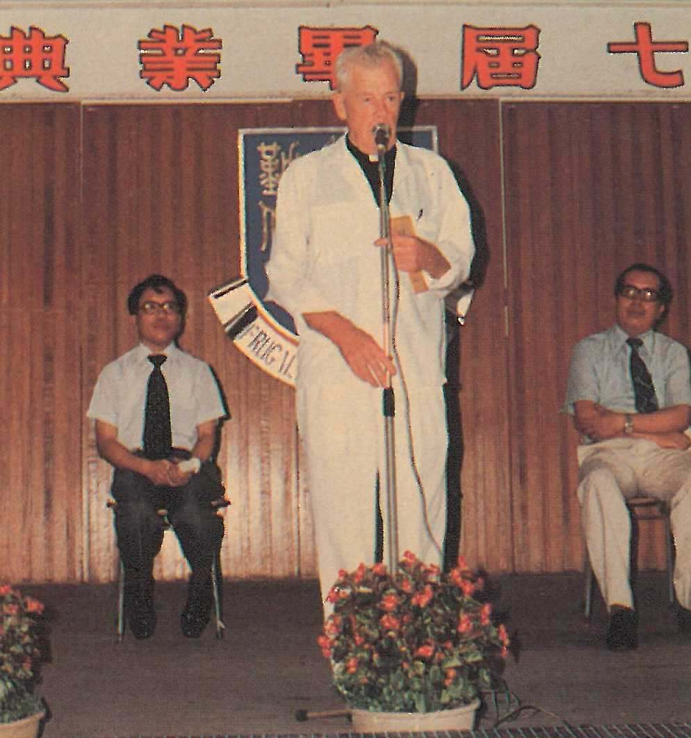 Fr John McLoughlin addressing the pupils at the 7th graduation ceremony of Bishop Paschang Memorial School